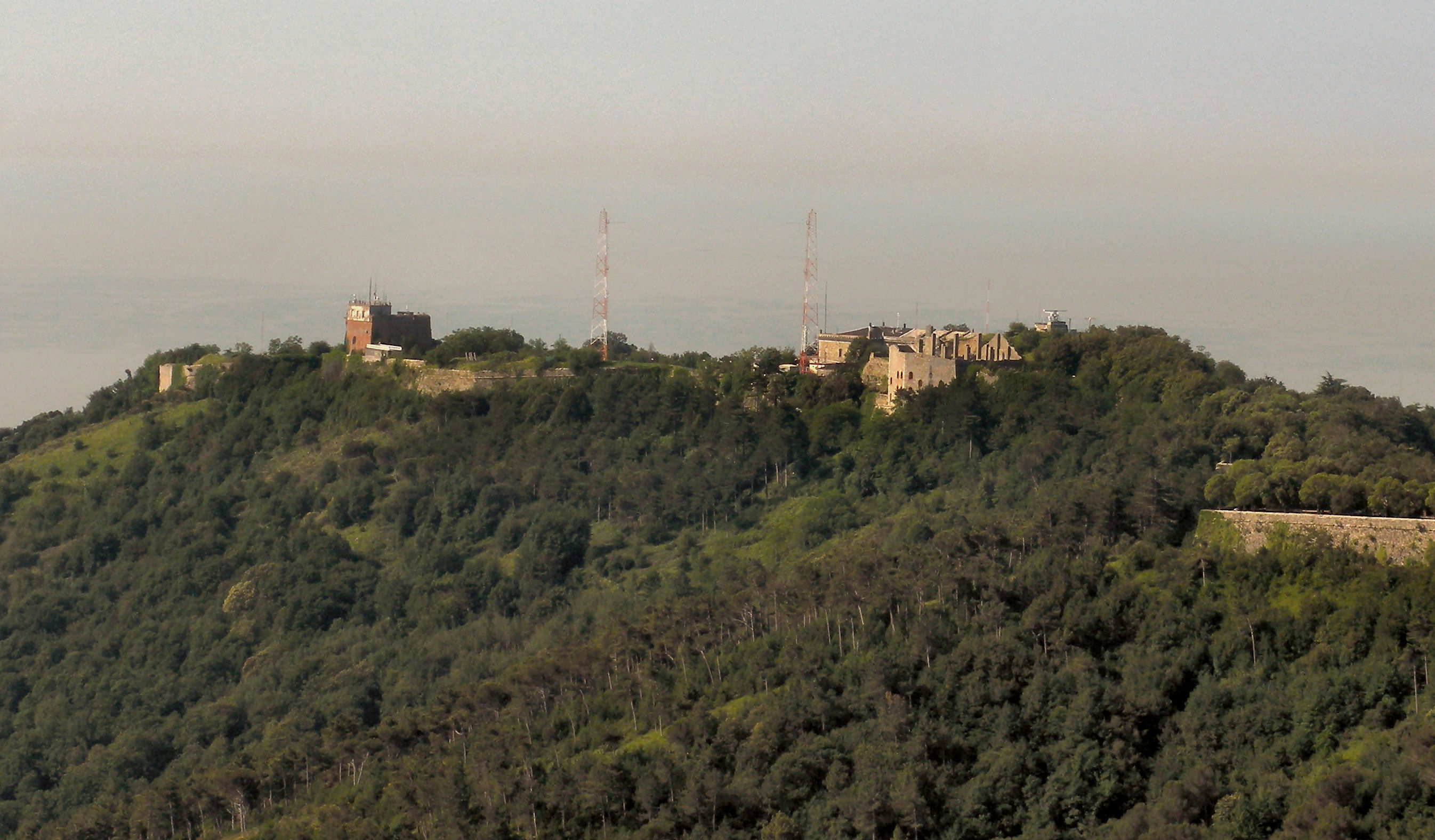 Genoa (Italy), Fort Castellaccio and Tower Specola